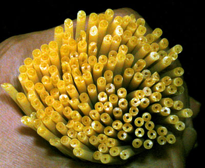 Uncooked perciatelli pasta.